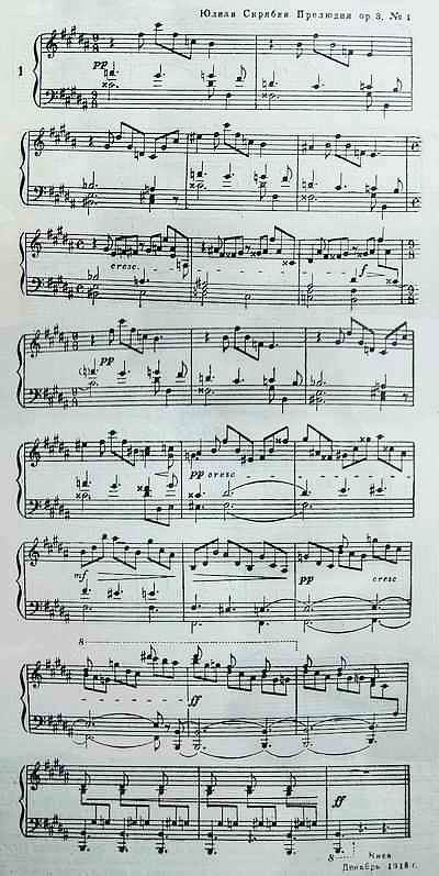 Scriabin Julian ---- Prelude op.3 №1.